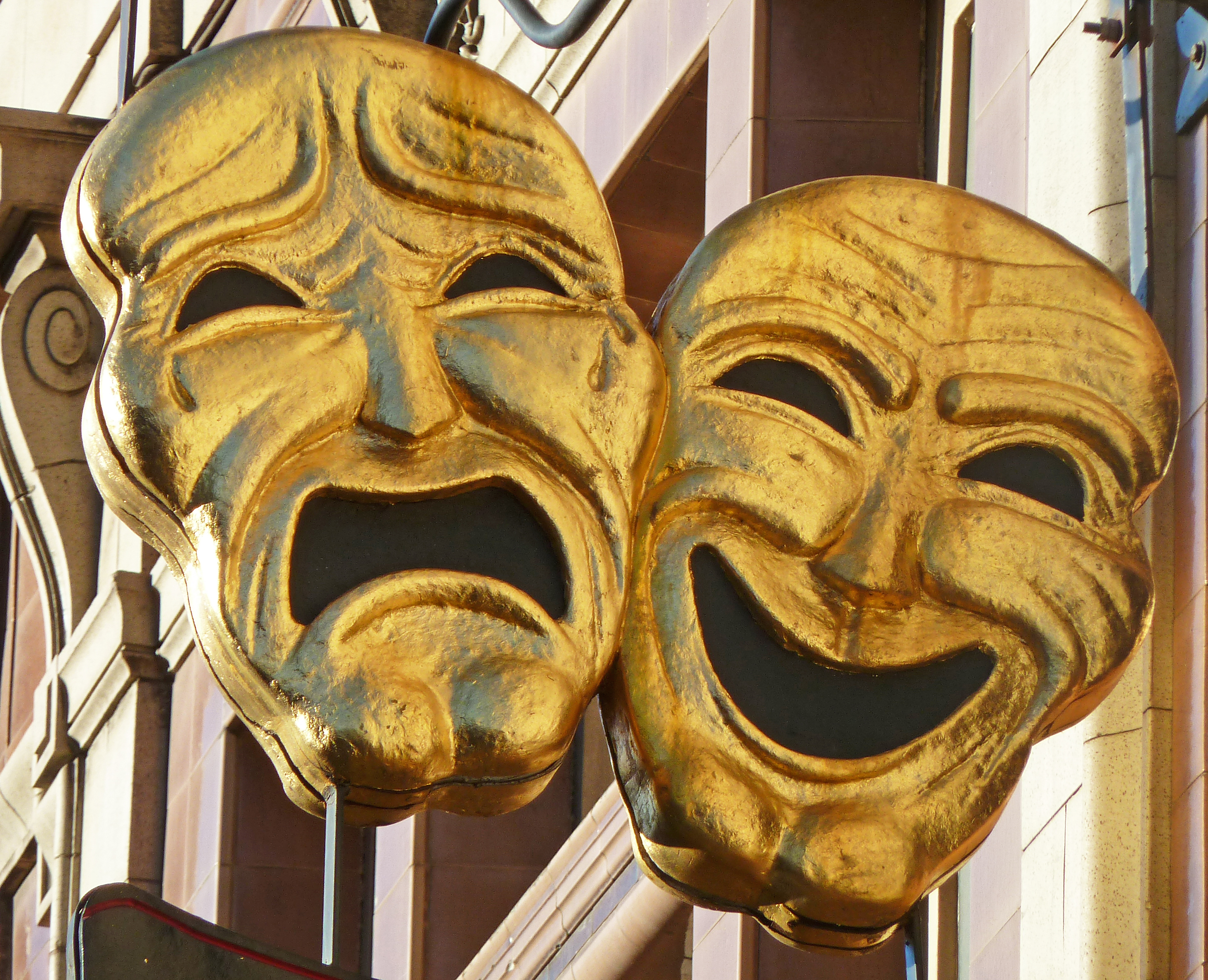 Scarbrough Hotel, Bishopgate, Leeds